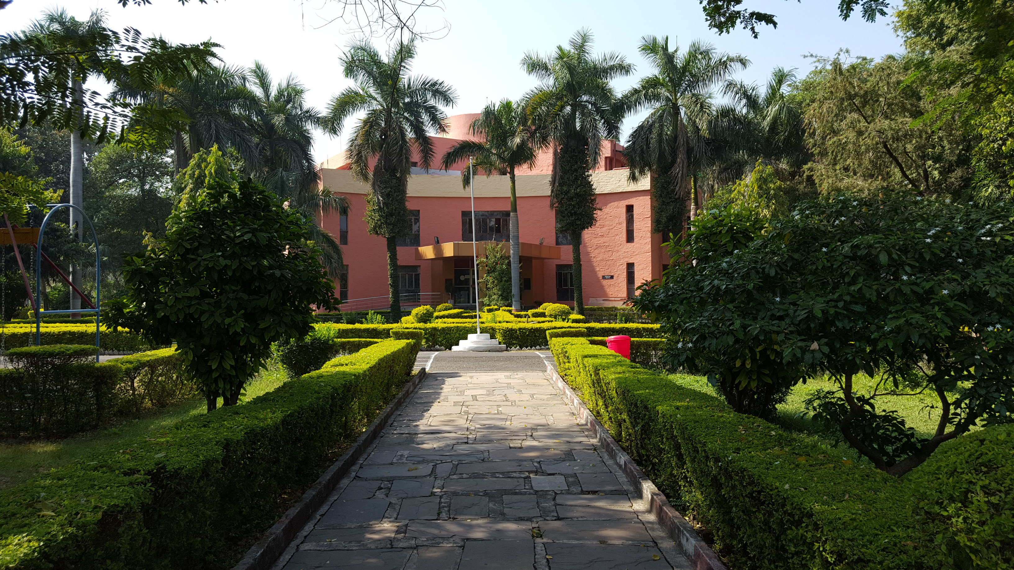 The main building of Raman Science Centre and Planetarium, an Institution doing pioneering work in the field of public understanding of science in Central India since 1987. It was formally inaugurated by the then Prime Minister of India P. V. Narasimha Rao on 7th March 1992.